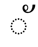 Mayhanakat - Thai accent